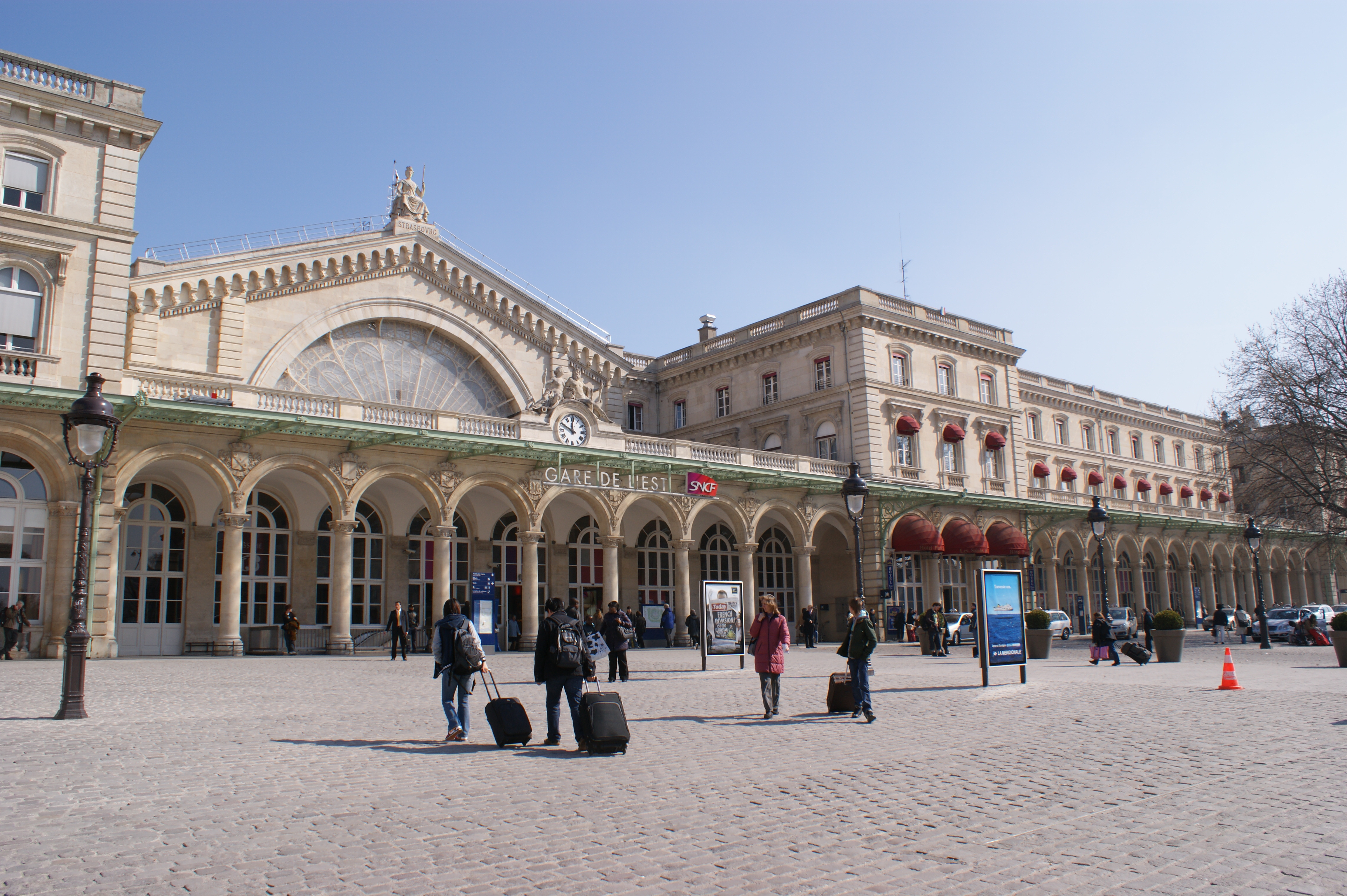 The frontage of Gare de l'Est, 4/09.